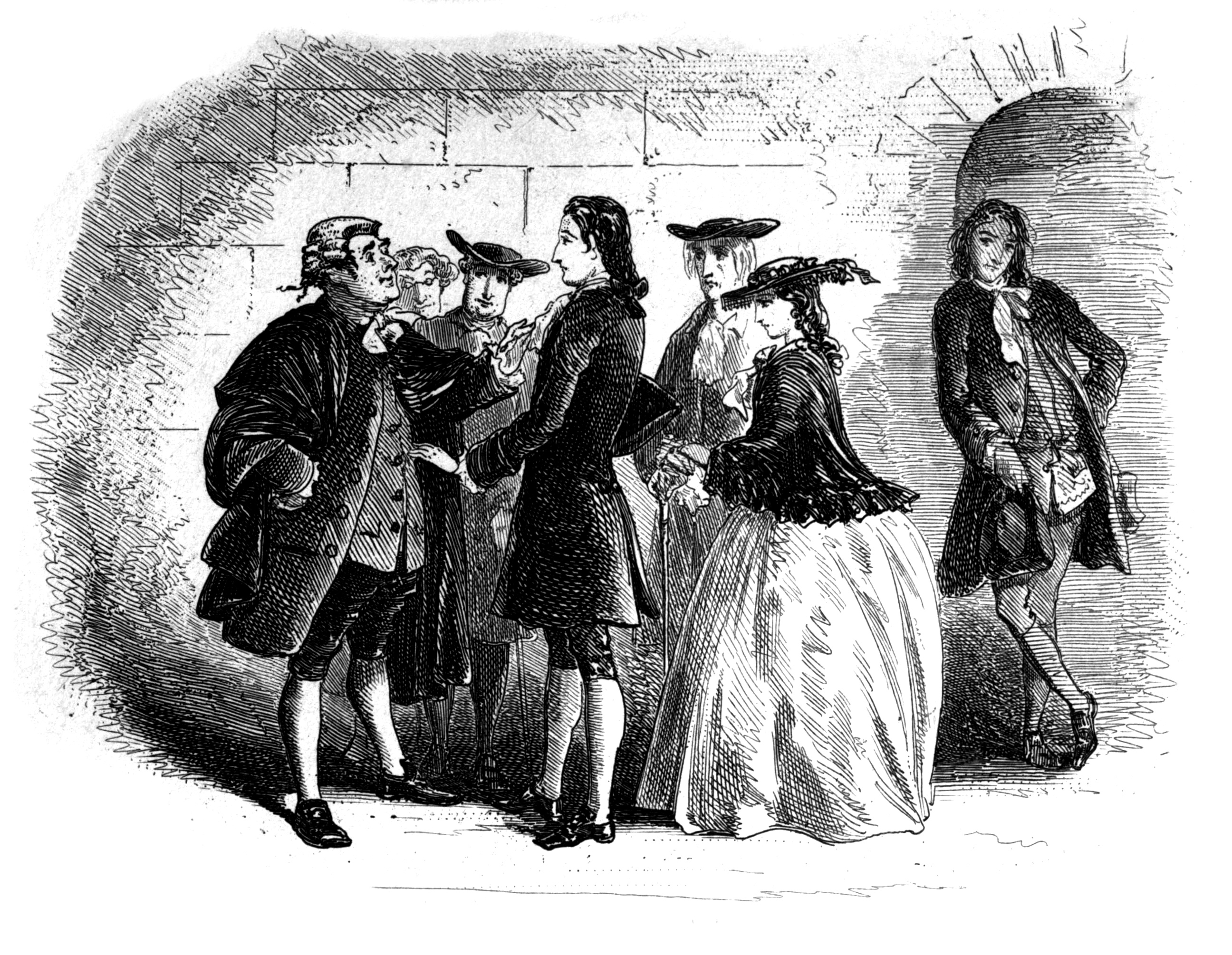 A Tale of Two Cities, Mr Stryver proudly congratulates his client (II, 4), by Phiz.Congratulations by Phiz (Hablot Knight Brown). Illustration to Dickens's A Tale of Two Cities. Book II, Chapter 4. All the Year Round (July, 85); issued June. A delighted Stryver congratulates his client on the result of the case whilst Lucie and Dr Manette who have been watching the proceedings await him. The choices of positioning of character and their stances are significant: Stryver is jubilant and self-congratulatory in his puffed-out pose; by contrast, Darnay appears elegant and understated as he extends his hand, his erect posture signifies his upright character and virtuous nature; Lucie’s positioning behind Darnay is effective in indicating a connection between them. Phiz depicts Sydney carton lingering in the shadows, framed by the arch of a doorway, full of resentment and jealousy. He resents Darnay who serves as a reminder of what he might have been had he chosen a different path and is jealous of the sympathy and admiration of Lucie Manette which Darnay has secured.